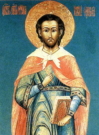 Justin the Philosopher